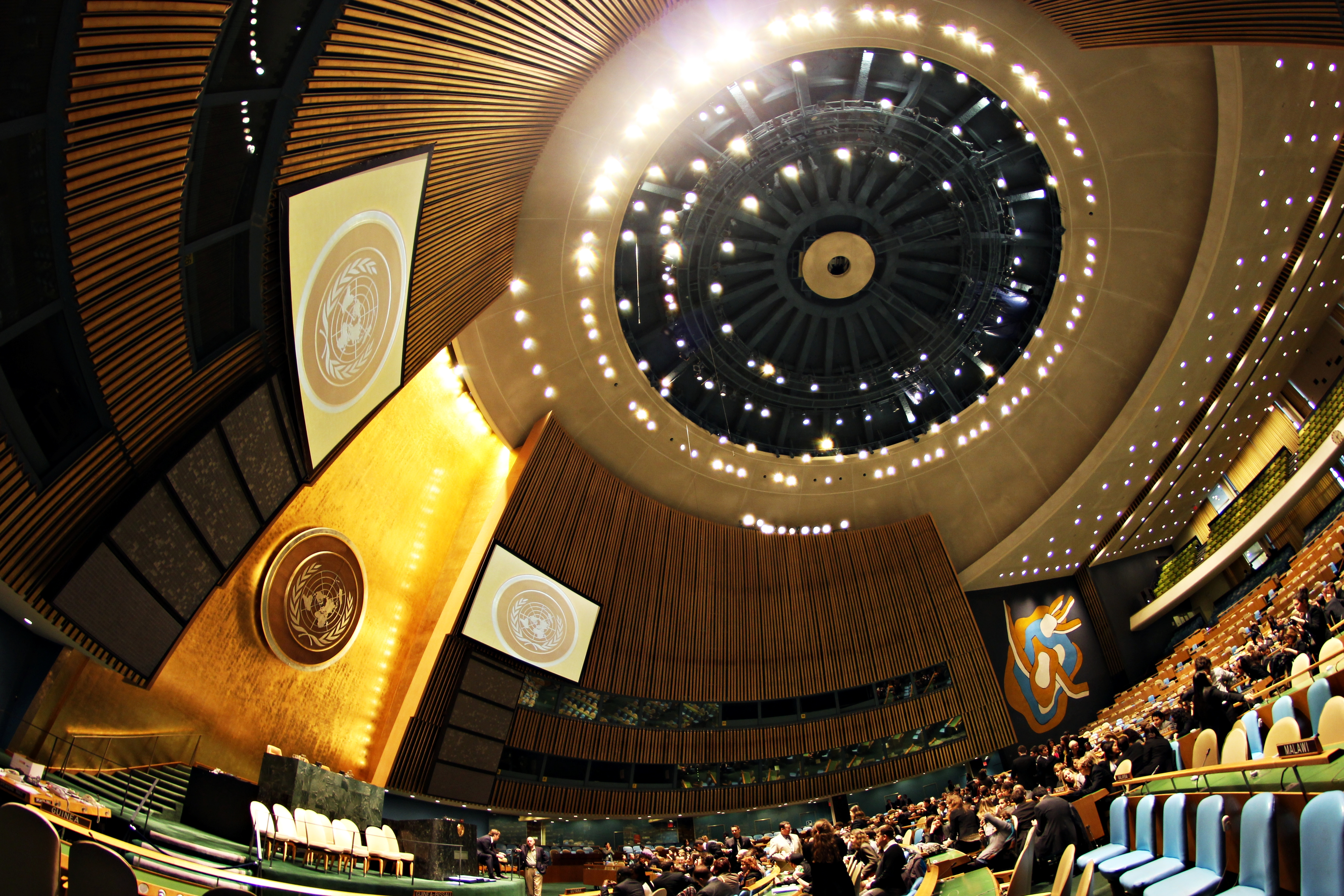 United Nations General Assembly Hall in the UN Headquarters, New York, NY